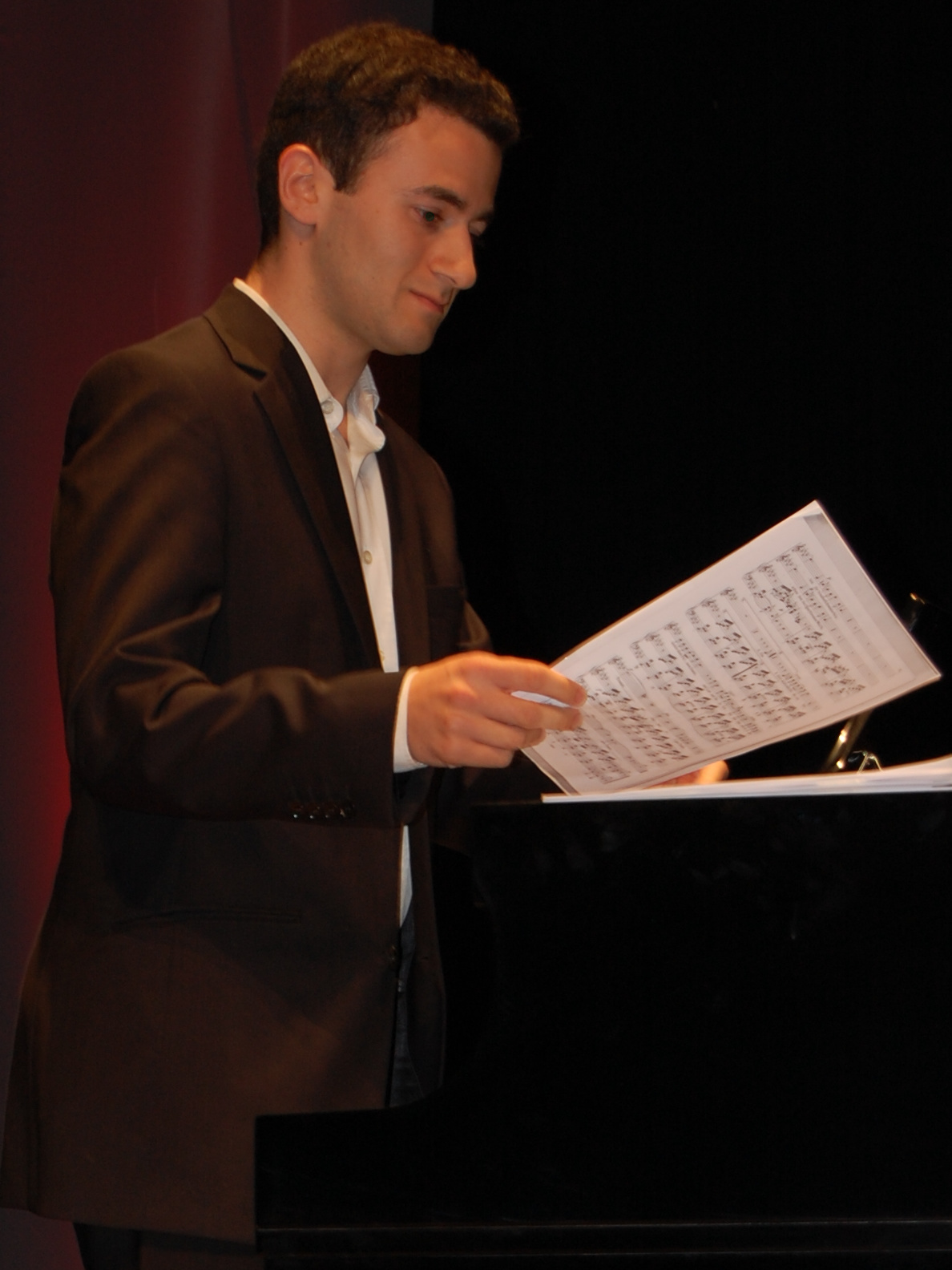 Photo shows Boris Kusnezow on May 16, 2009 in Brunsbüttel, Germany